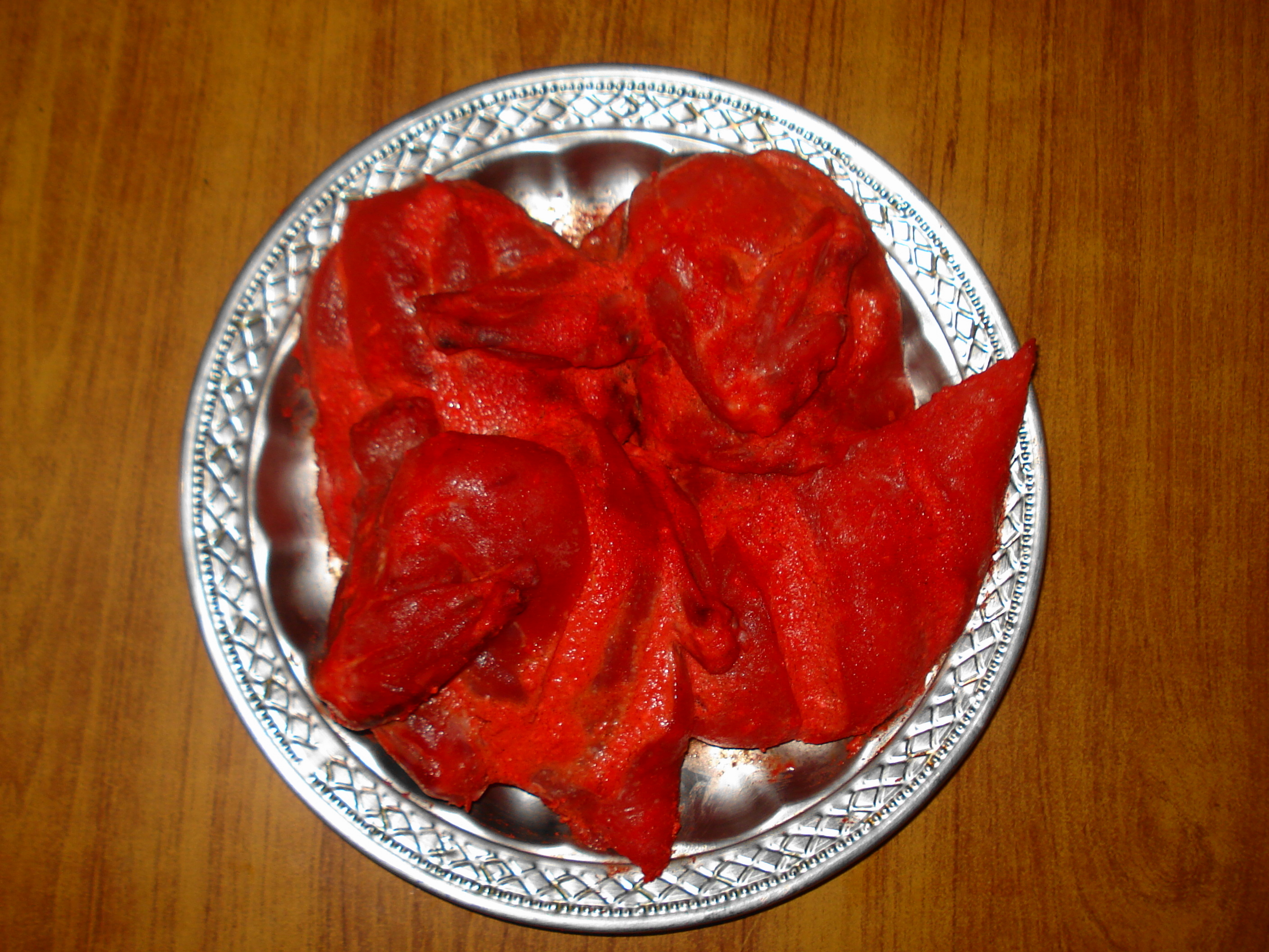 Tandoori